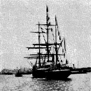 Vessel Antarctic